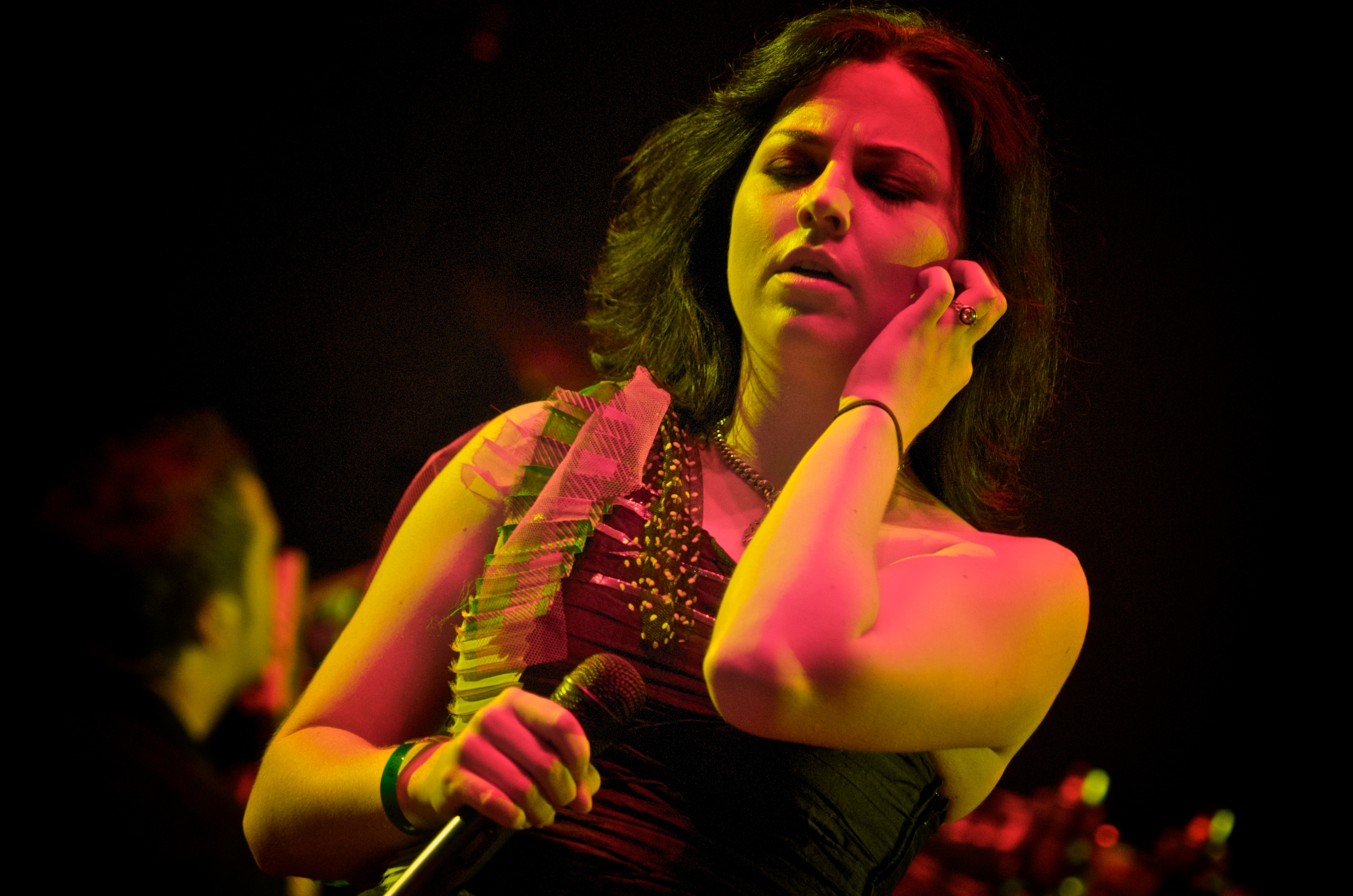 Amy Lee of Evanescence in Maquinária Festival, occurred in November 8 2009 at Chácara do Jóquei, São Paulo, Brazil.